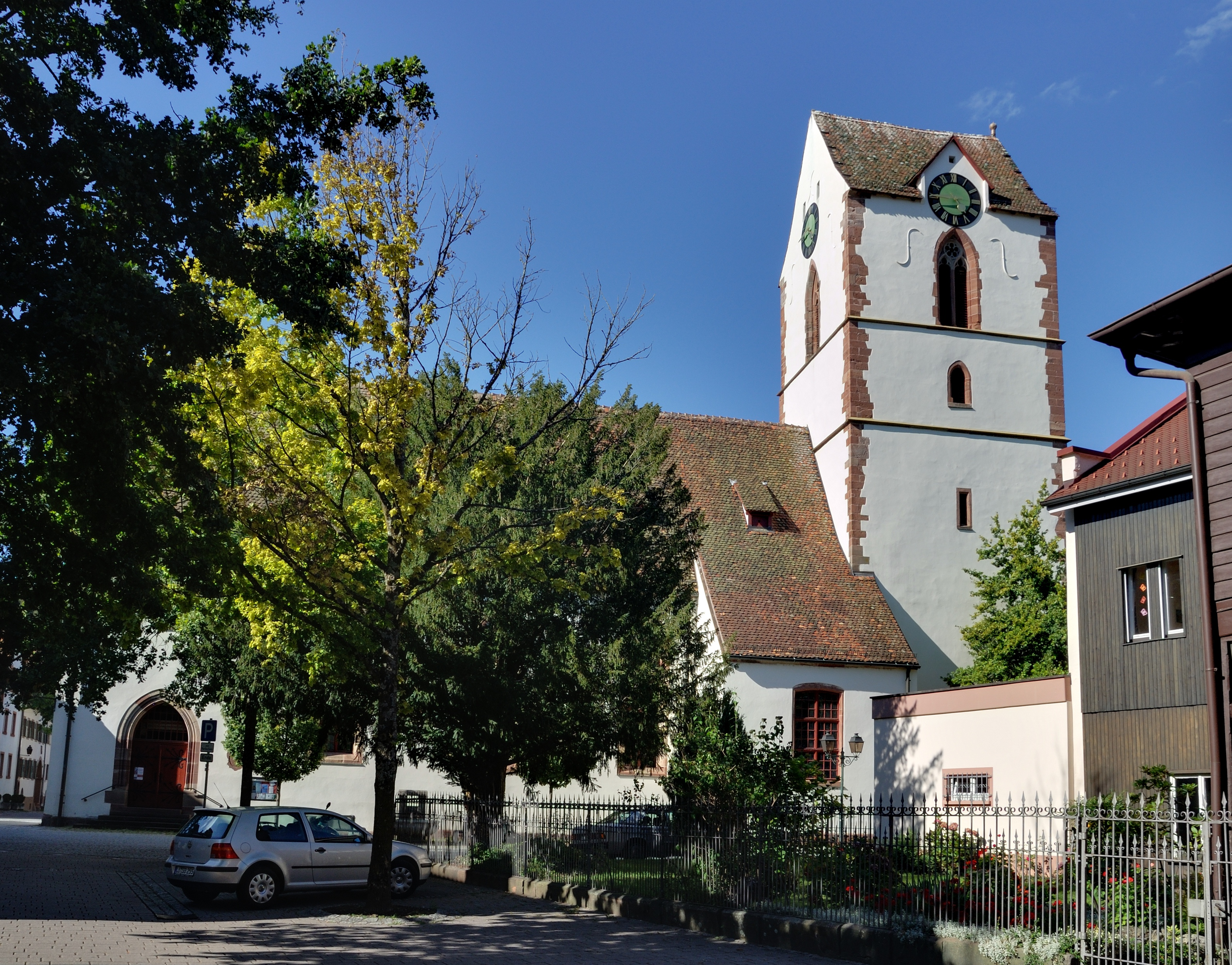 Schopfheim: Old City Church